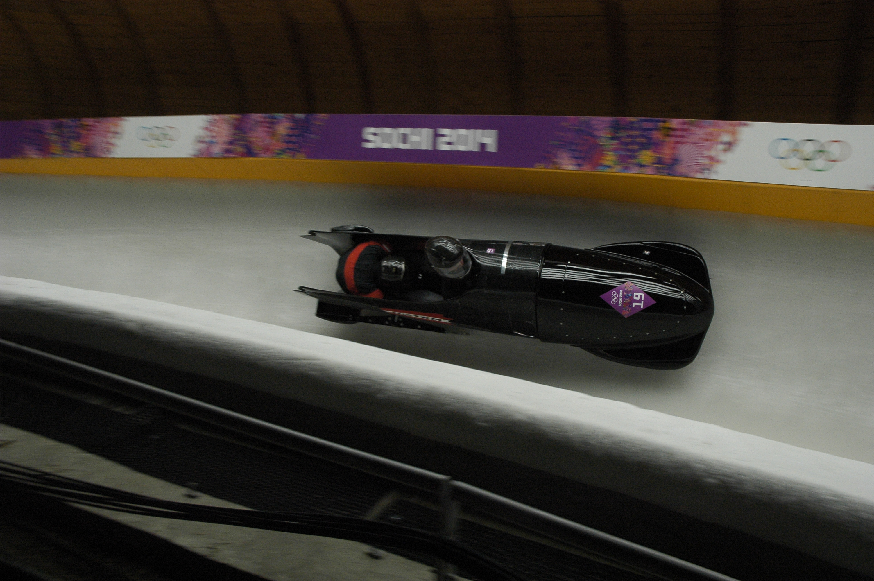 Two-man bobsleigh, 2014 Winter Olympics, Austria run 3